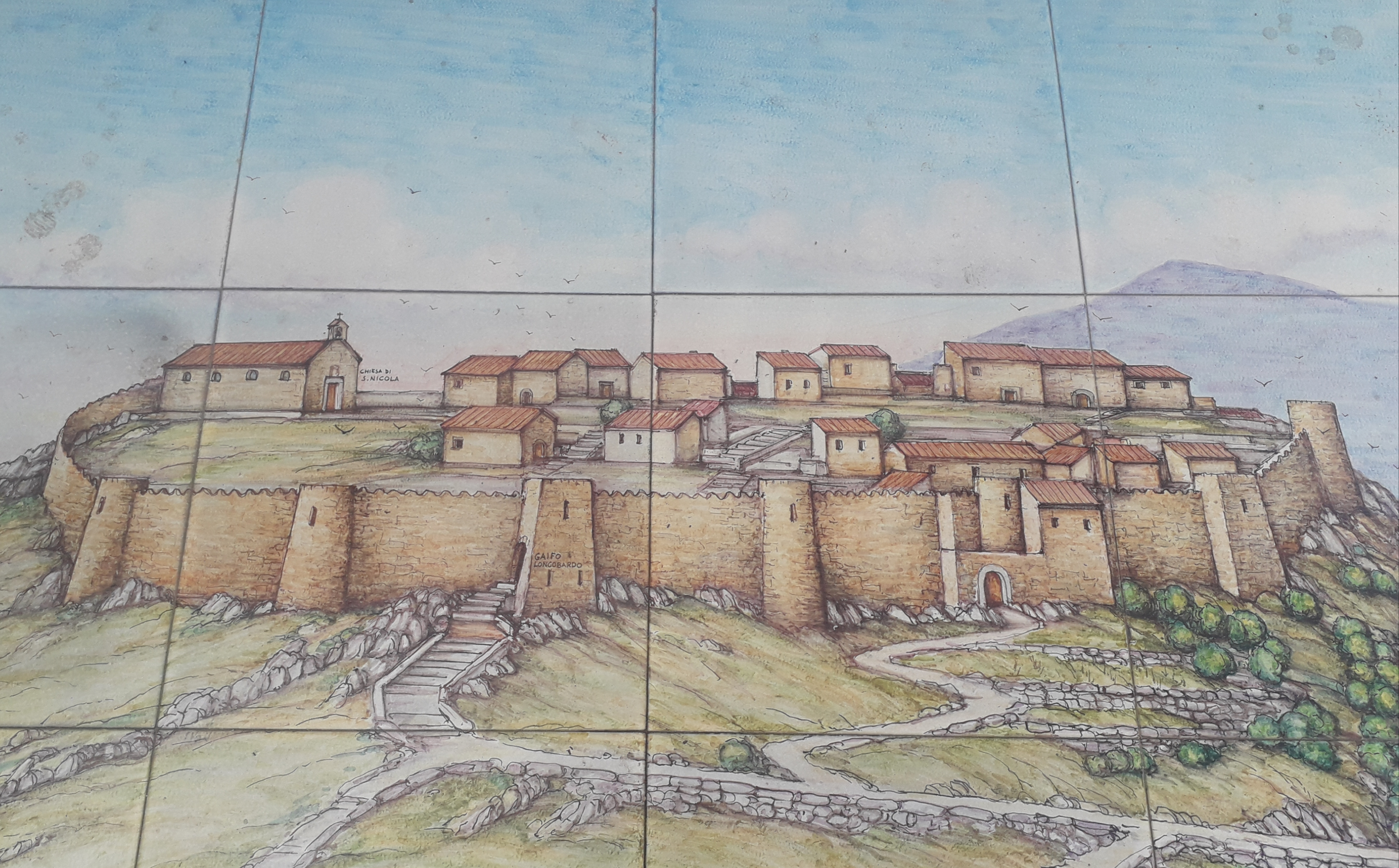 Painting of magliano nuovo medieval castle